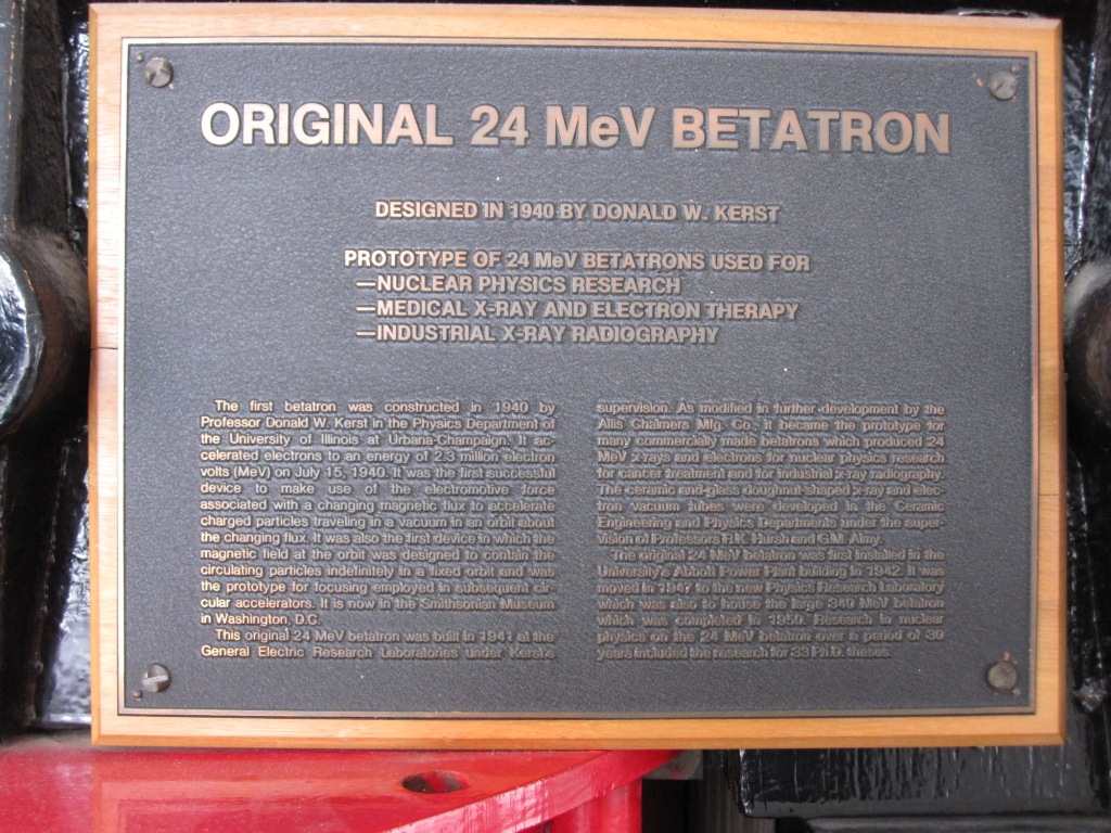 24 MeV betatron.